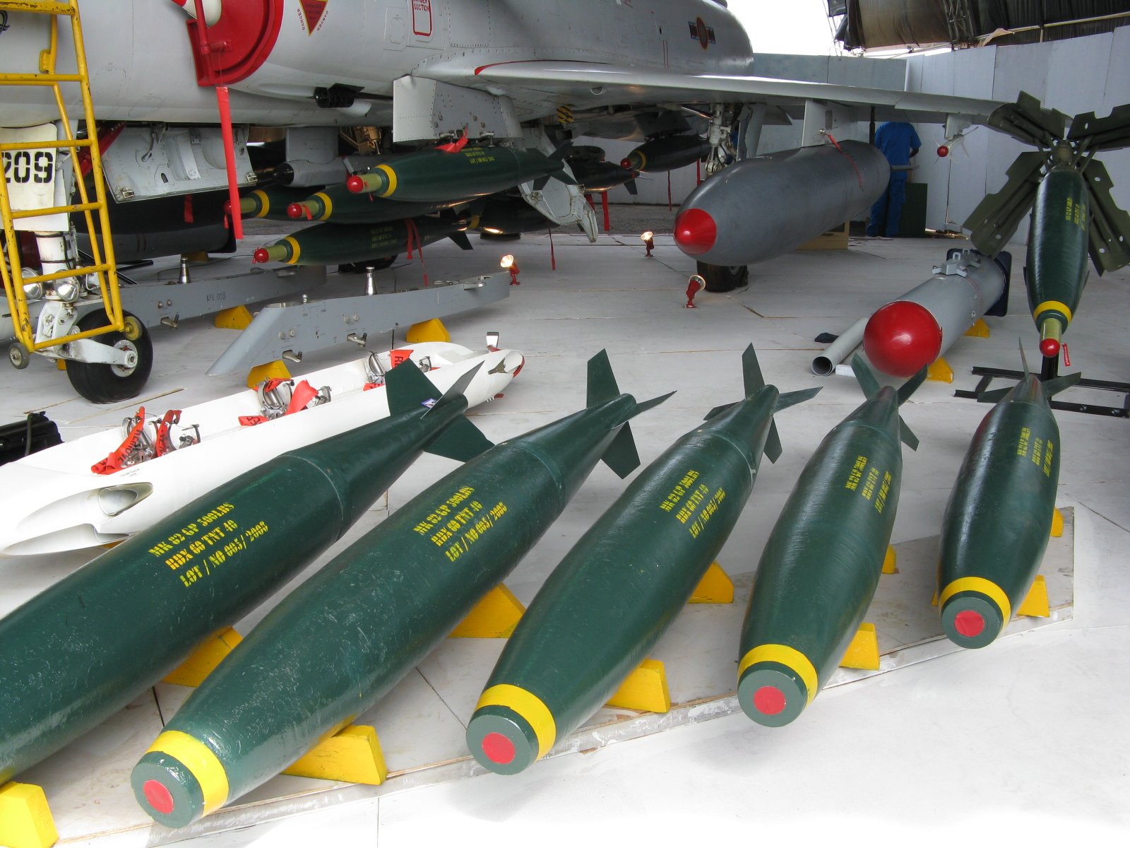 Kfir C2 Fighter-bomber Aircraft - Sri Lanka Air Force